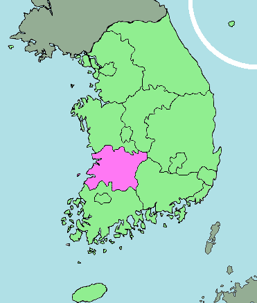 Area map of Jeollabuk